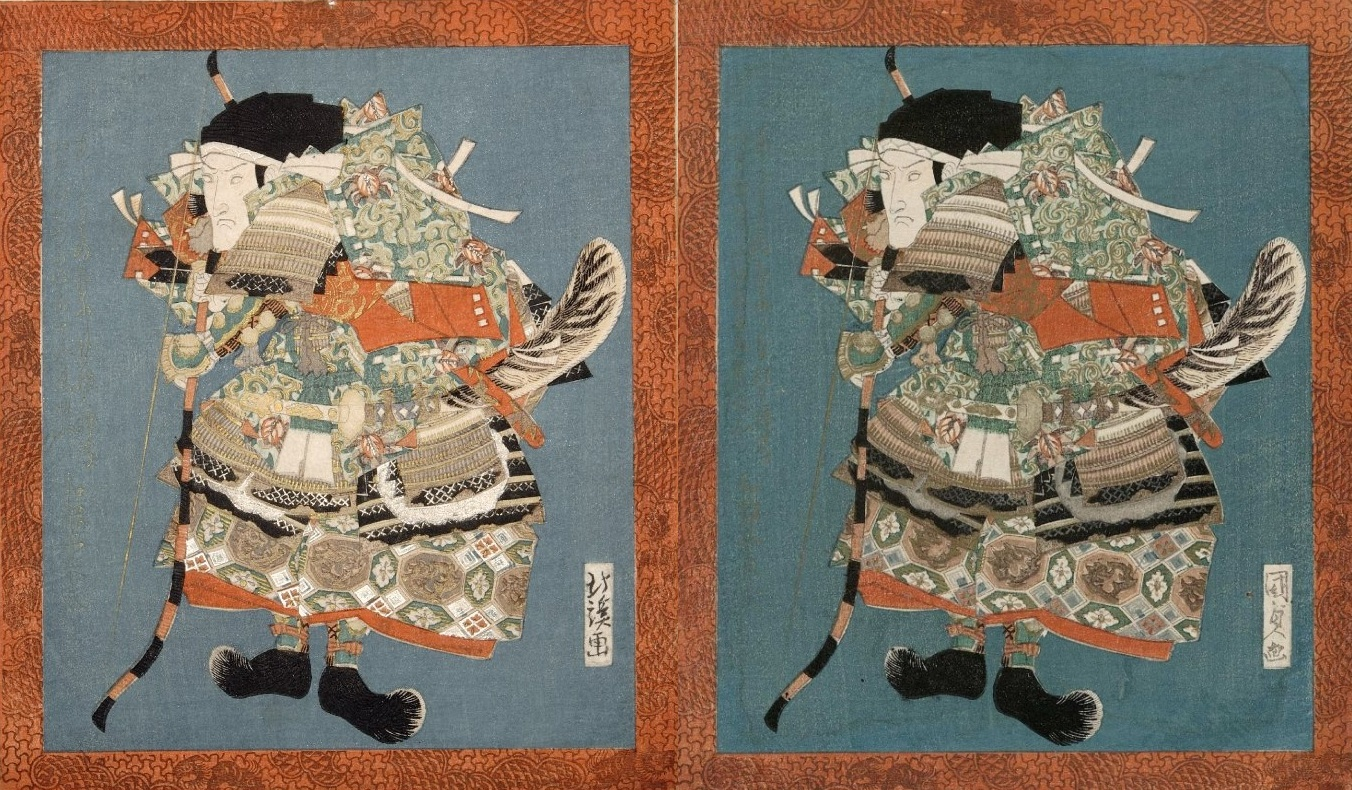 right sheet of a theatre surimono by Kunisada, the actor Bandō Mitsugorō III as Tametomo, right original version, left with a faked signature of Hokkei, c. 1825